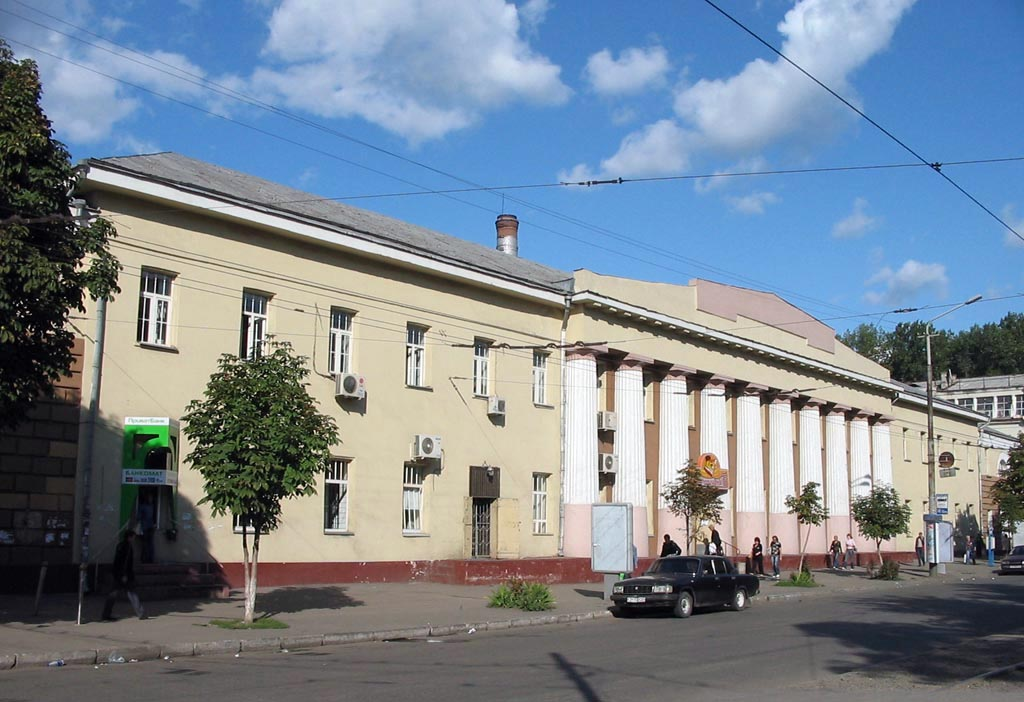 The manufacture in Dnipropetrovsk, Ukraine.